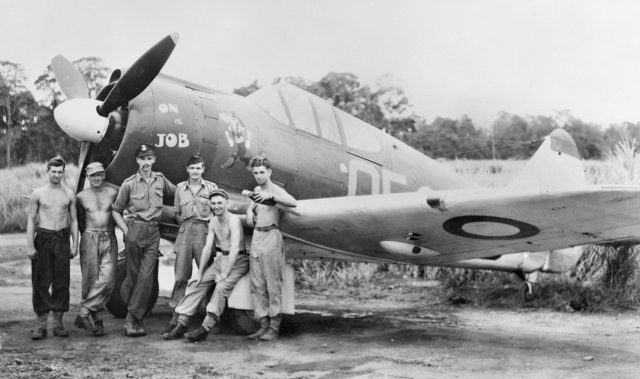 AWM Caption: Nadzab, New Guinea. 5 October 1943. Pilots and ground crew of No. 4 (Tactical Reconnaissance) Squadron RAAF beside a Boomerang aircraft, serial no. A46-???, code name QE-H, named `On the Job'. Identified from left to right: Leading Aircraftman (LAC) Black LAC Brough Flying Officer (FO) David Murrie FO Philip Simpson Corporal Chambers LAC Rayson Note the nose art, the cartoon character Goofy painted on the side of the aircraft by Corporal Chambers.